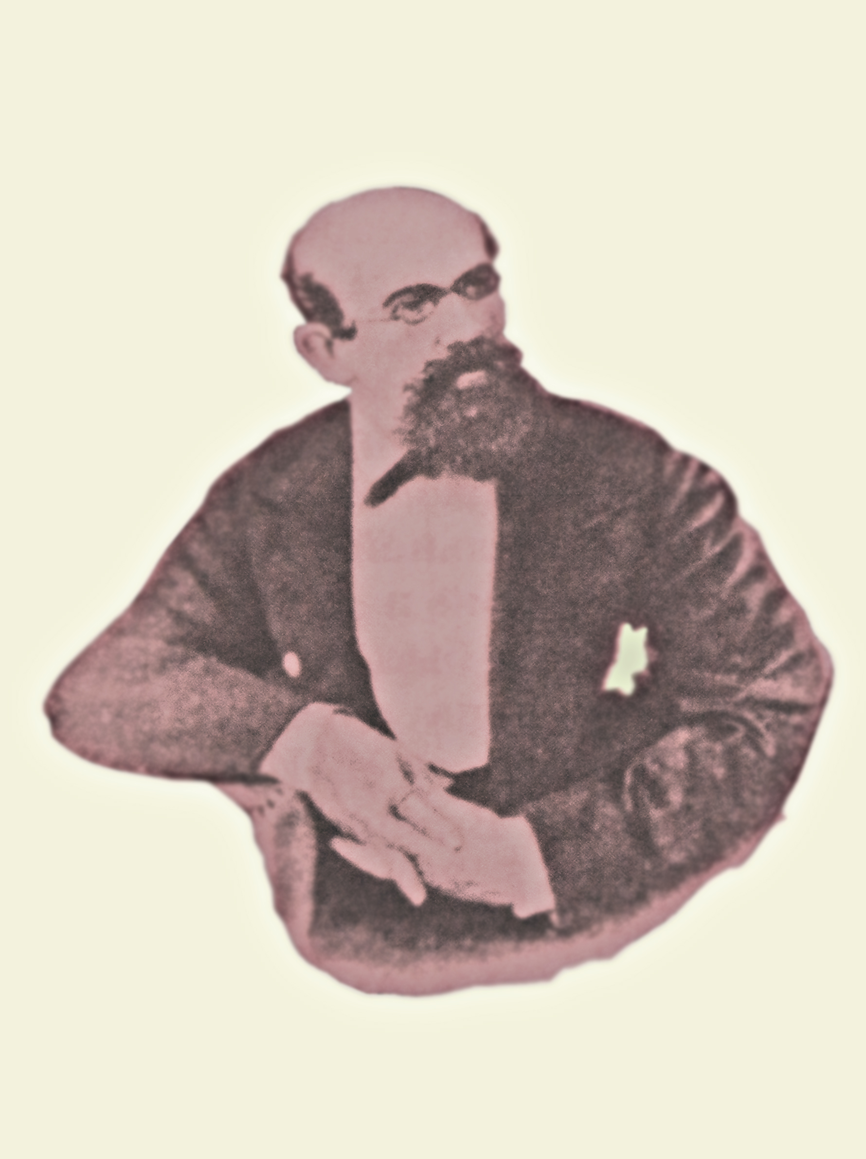 Putilow N.I. (1820-1880)